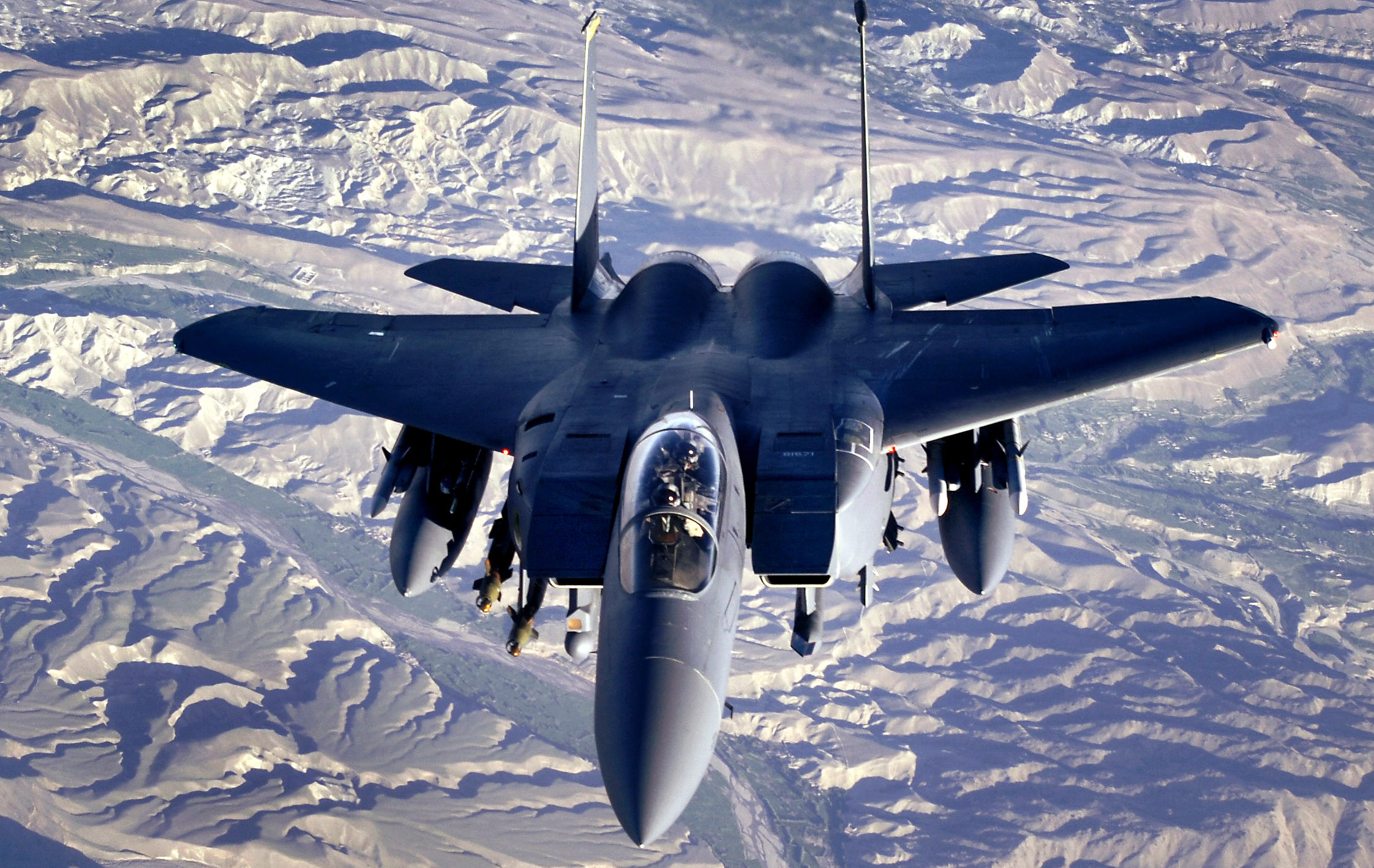 A U.S. Air Force pilot aboard an F-15E Strike Eagle conducts a mission over Afghanistan, April 14, 2008. The F-15 frequently performs shows of force to deter enemy activities and protect coalition forces on the ground in Afghanistan and Iraq. (original caption)